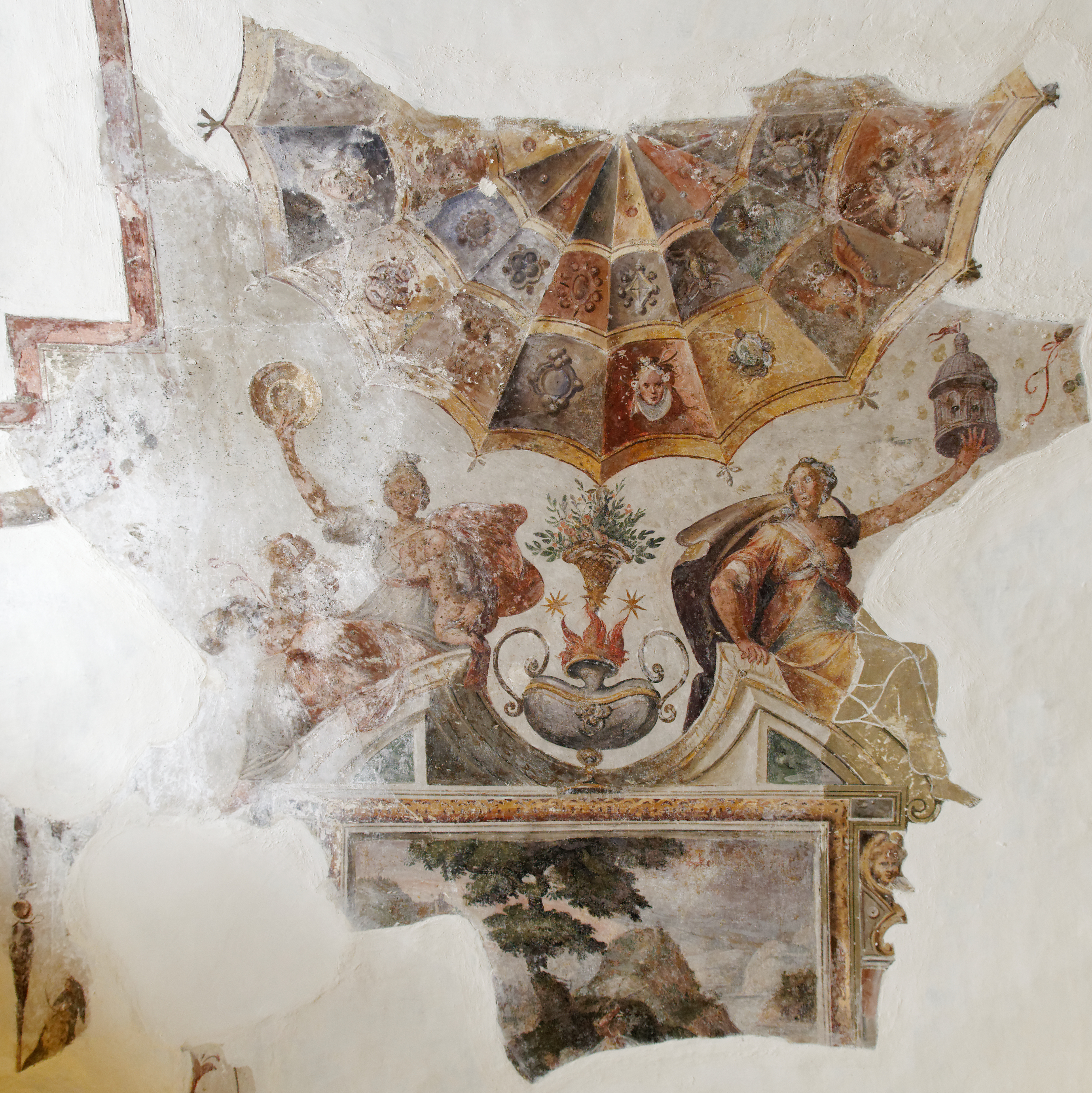 Remains of a fresco, Inquisitor's palace in Vittoriosa (Birgu), Malta.